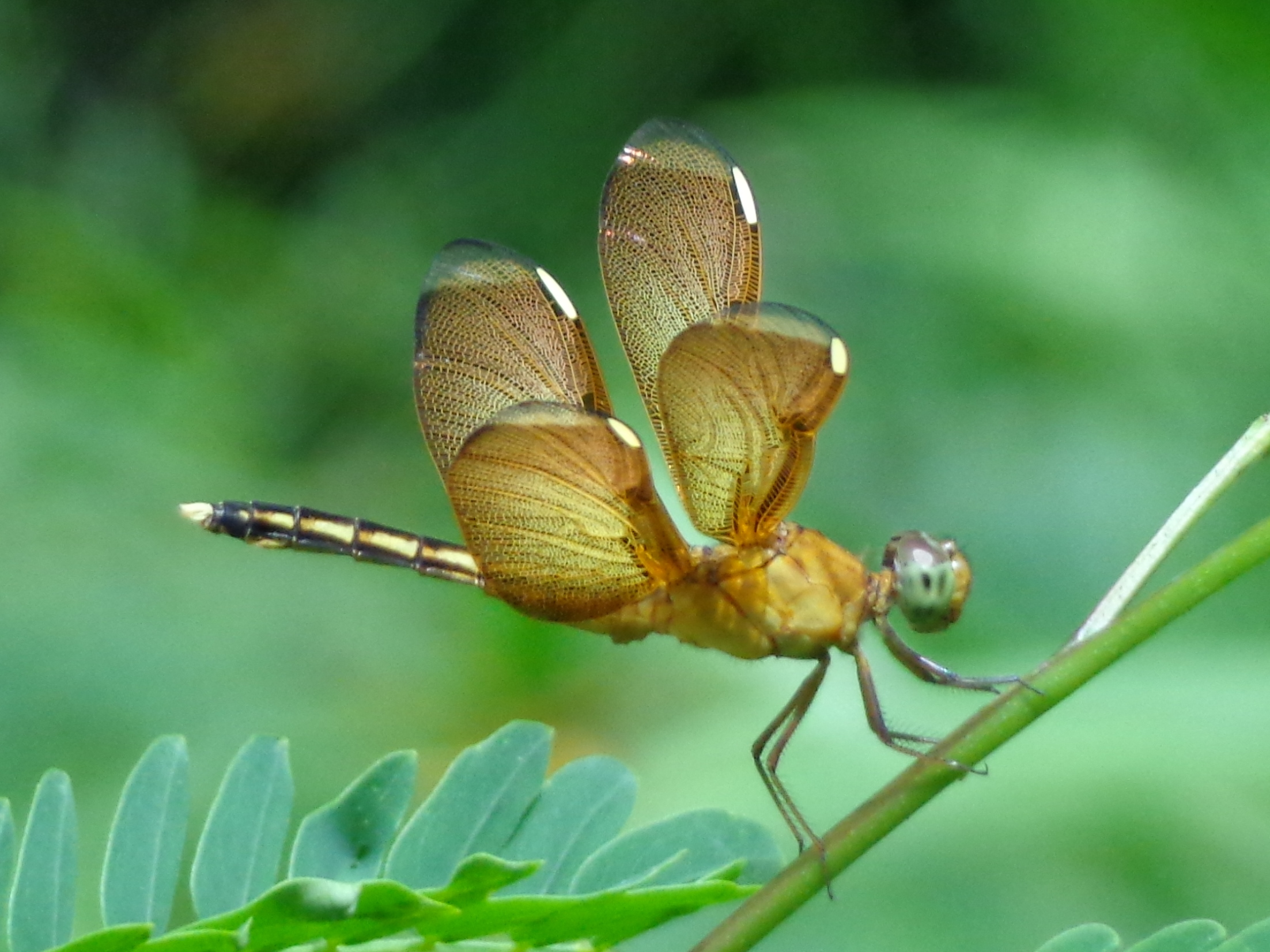 Neurothemis terminata (female) at Kampus Unsrat Manado